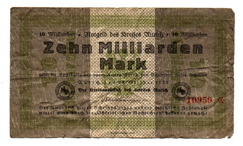 A 10 billion mark bill from the days of the German depression.